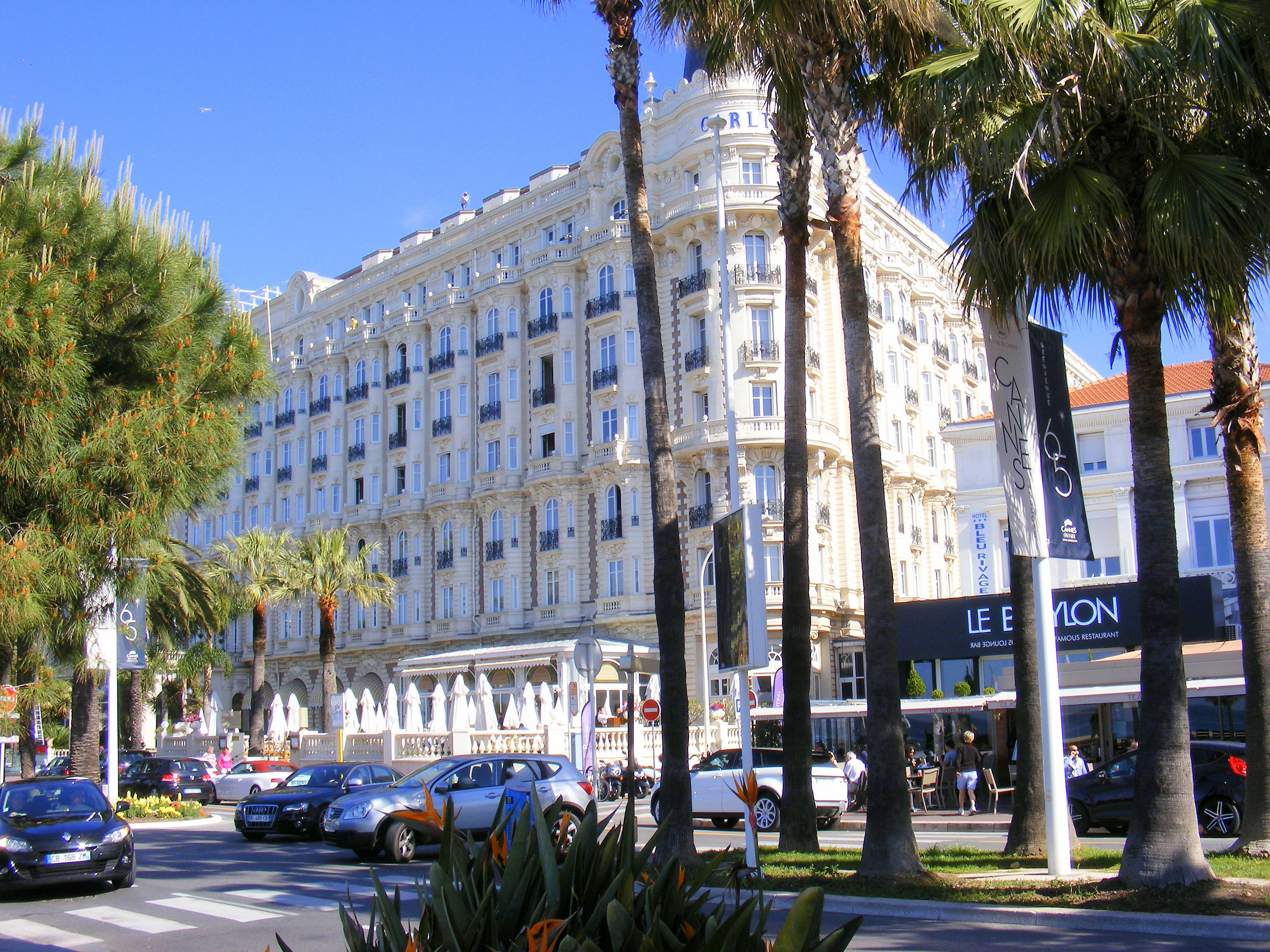 Hotel Carlton Cannes - widok z bulwaru La Croisette Cannes